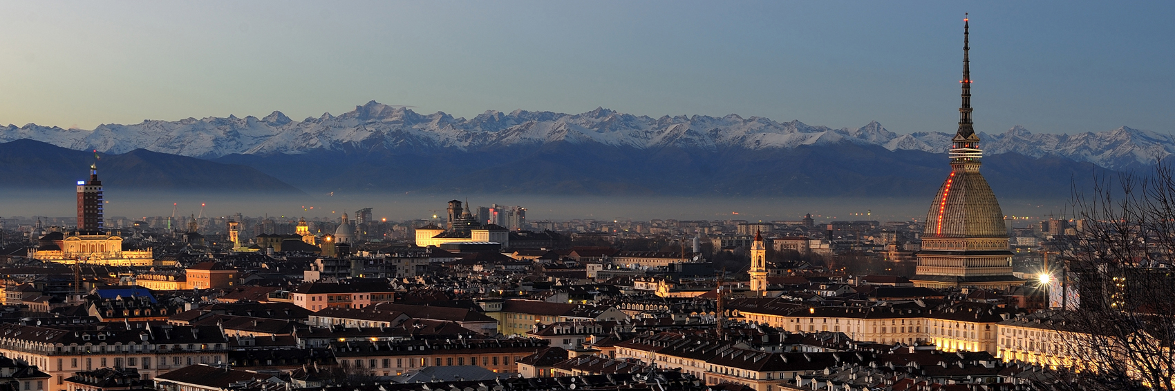 Turin seen from monte dei cappuccini